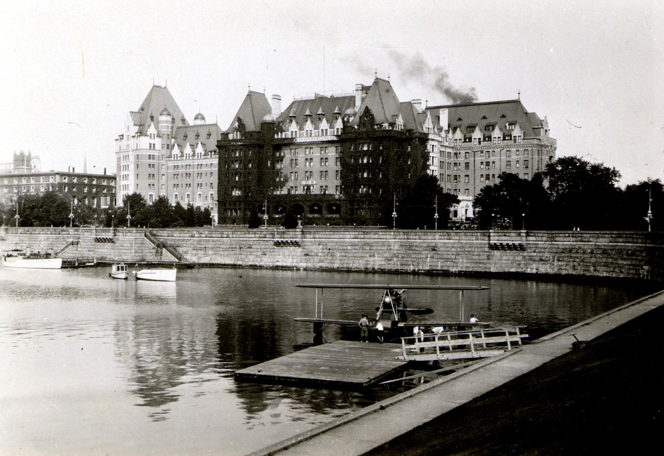 Empress Hotel. Victoria, BC. Canada. Photo by: F.P. Keen Date: August 1930 Credit: USDA Forest Service, Pacific Northwest Region, State and Private Forestry, Forest Health Protection. Collection: Bureau of Entomology, F.P. Keen Collection; La Grande, Oregon. Image: FPK-367 To learn more about this photo collection see: Wickman, B.E., Torgersen, T.R. and Furniss, M.M. 2002. Photographic images and history of forest insect investigations on the Pacific Slope, 1903-1953. Part 2. Oregon and Washington. American Entomologist, 48(3), p. 178-185. For additional historical forest entomology photos, stories, and resources see the Western Forest Insect Work Conference site: Image provided by USDA Forest Service, Pacific Northwest Region, State and Private Forestry, Forest Health Protection